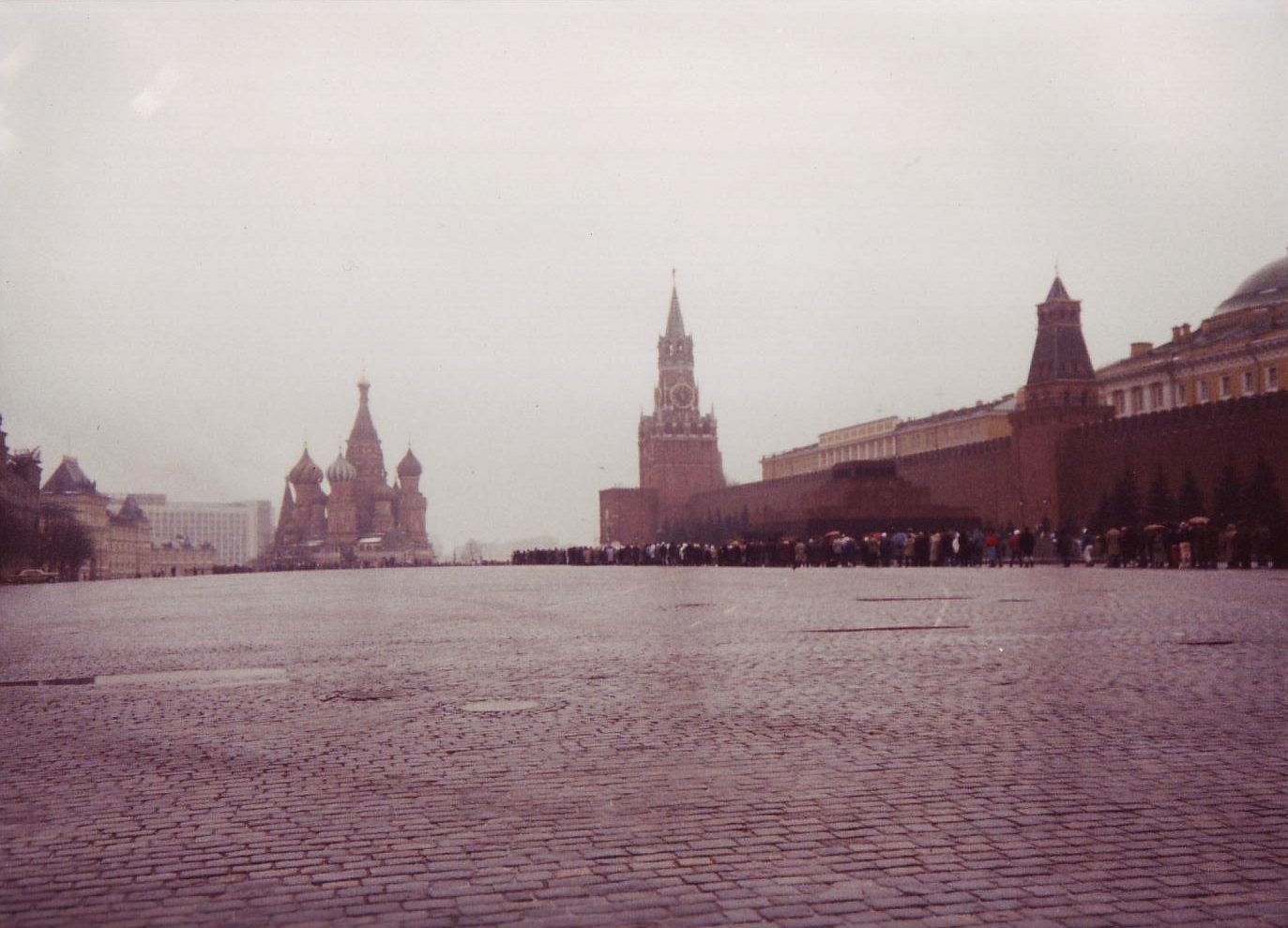 Description: A photo of Red Square. As an historical note, this was taken in 1988 before the fall of the Berlin Wall. Photographer: Family photo of the uploader.